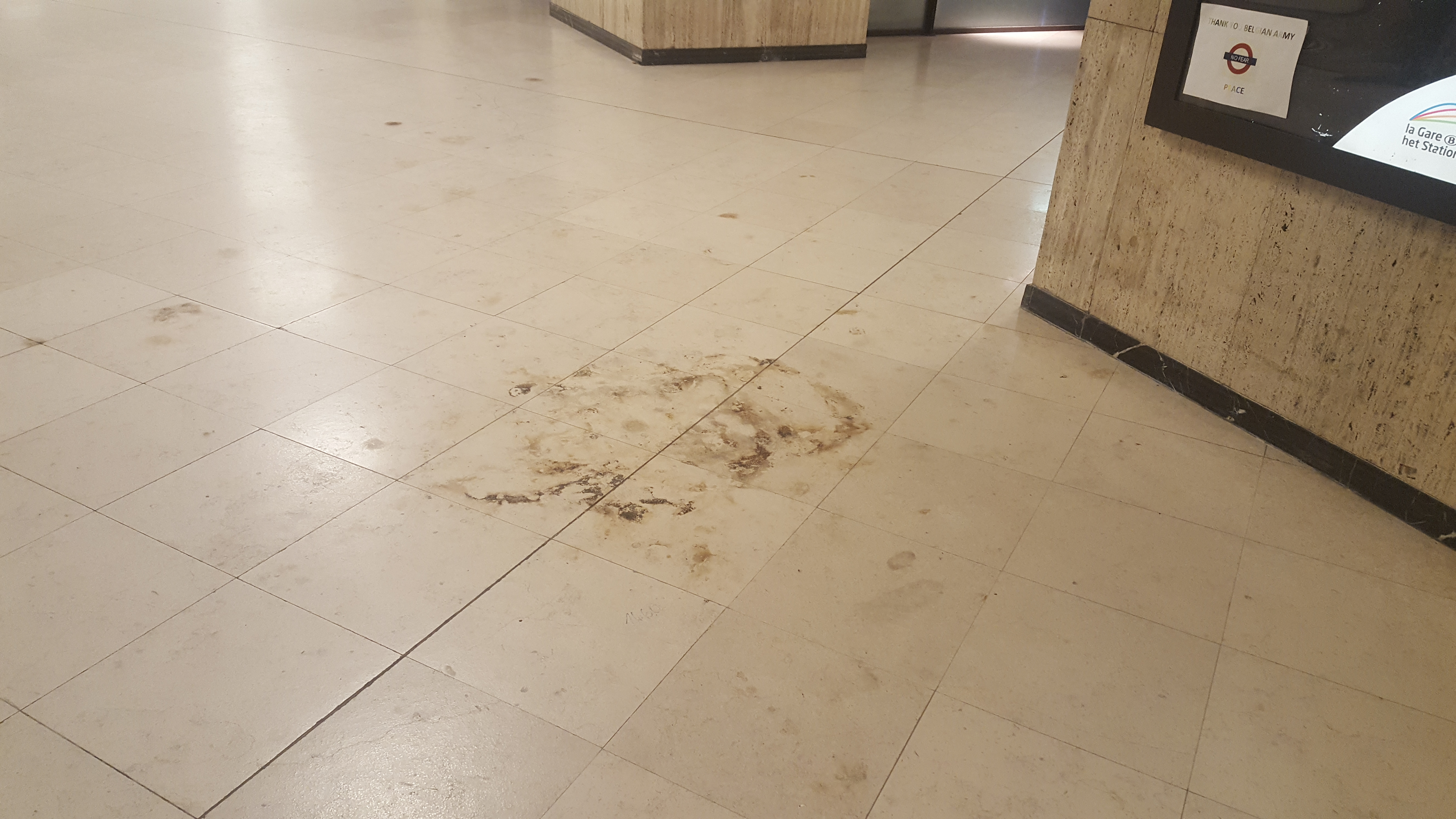 Brussels: the spot where the bomb went of in the Brussels Central train station in June 2017